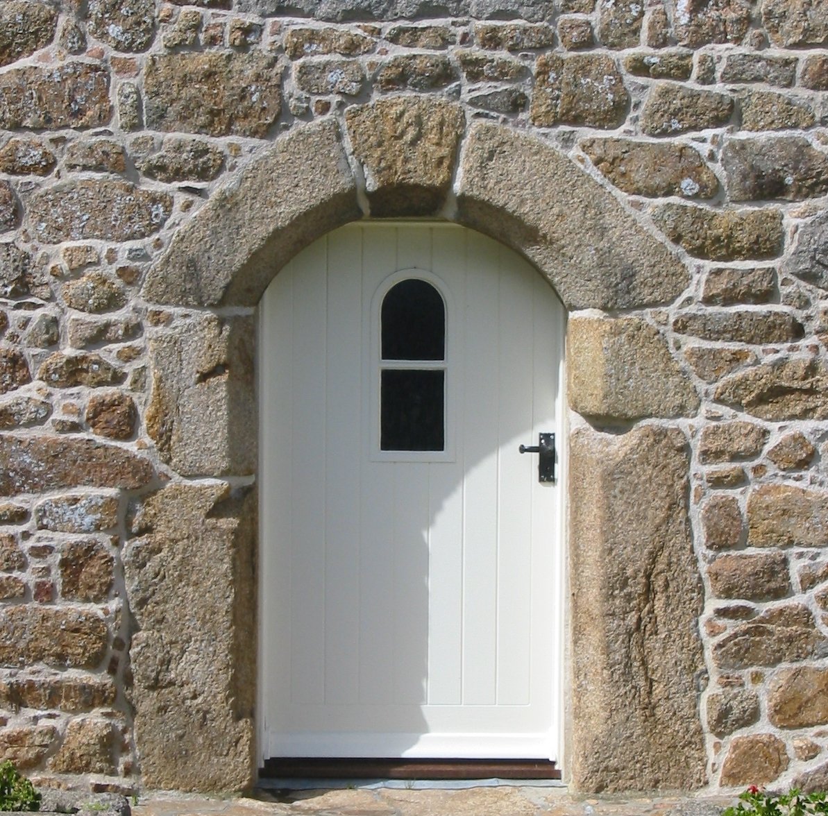 Doorway of La Ronce, a property of the National Trust for Jersey, showing vernacular granite architecture with traditional arch. Situated in St. Ouen, Jersey.